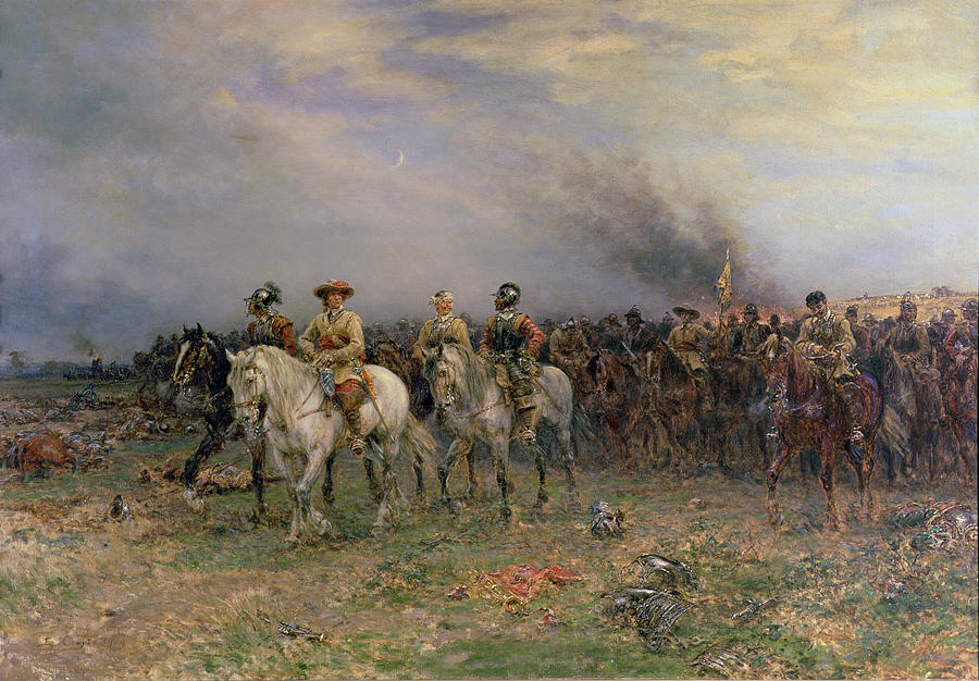 Ernest Crofts. Cromwell after the Battle of Marston Moor. 1877.